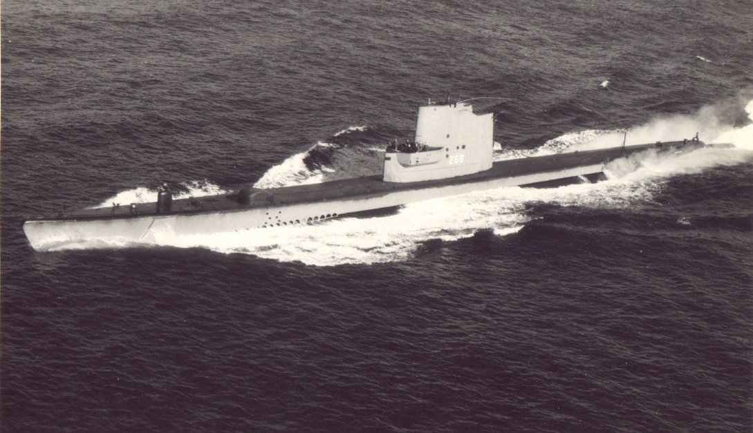 USS_Rasher; Rasher (SS-269), port view underway, circa post 1953. USN photo courtesy of John Hummel.